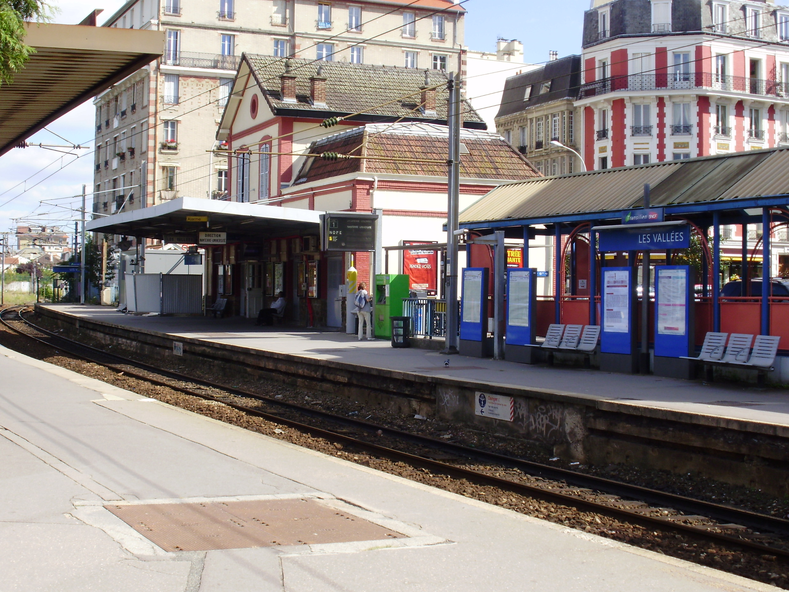 Les Vallées station, in La Garenne-Colombes, Hauts-de-Seine, France (station building seen from the platform to Paris-Saint-Lazare)